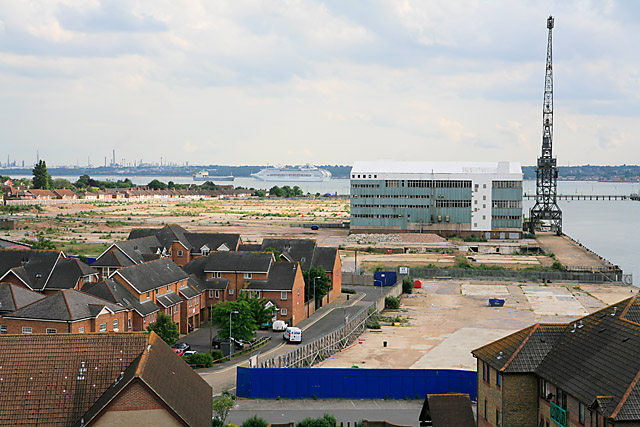 Site of former Vosper Thornycroft shipyard, Woolston